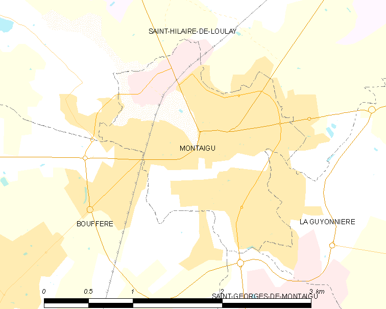 Map of French municipality Montaigu